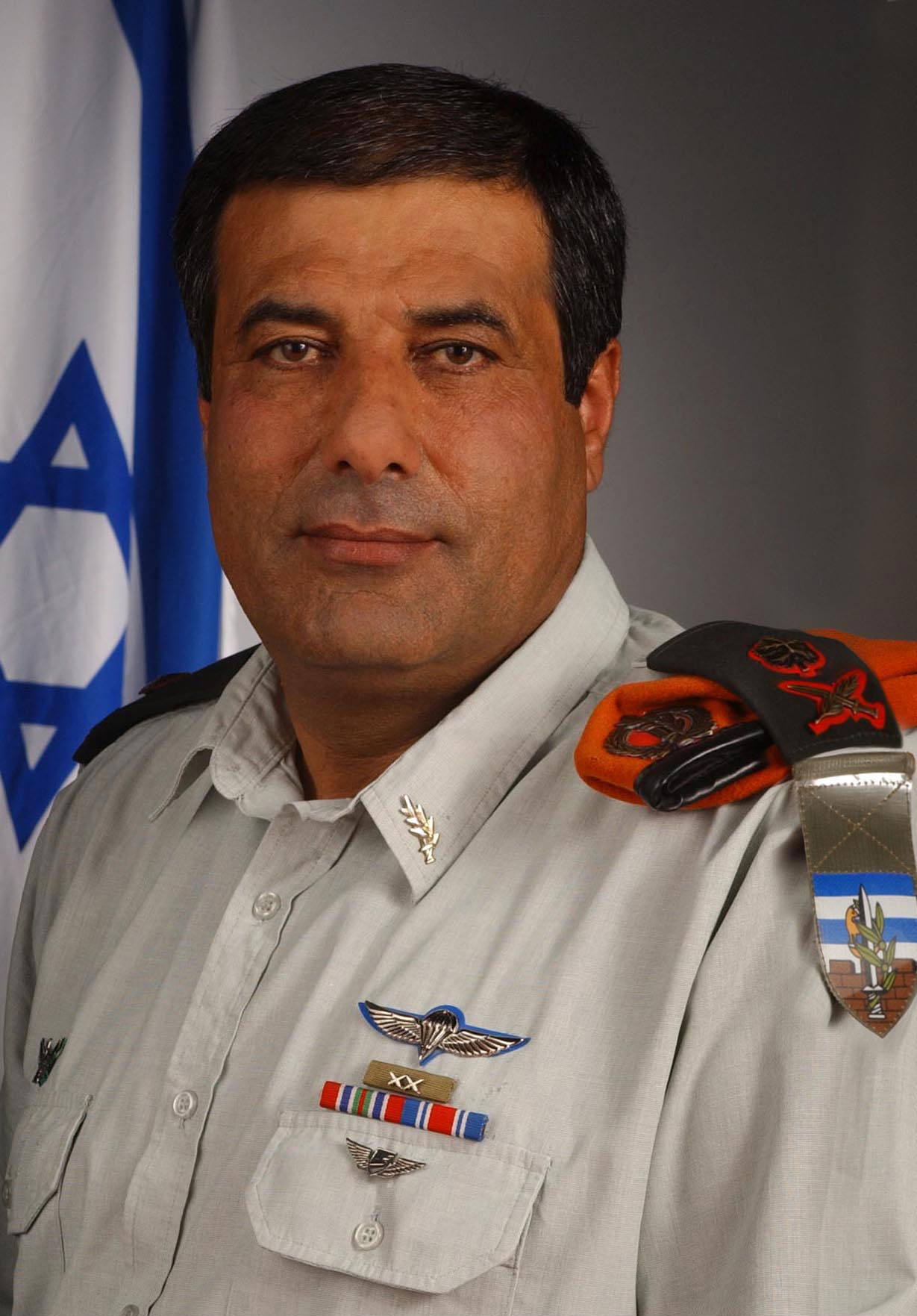 Major General Yusef Mishleb, Head of the Home Front Command, with Territorial Commander Citation, above the campaign ribbons from left to right for "Peace For Galilee" and Yom Kippur war. This order of wearing is incorrect and should be reversed.